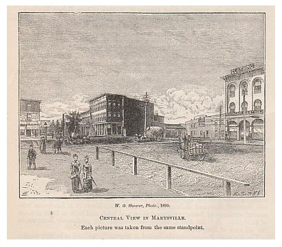 Marysville, 1890